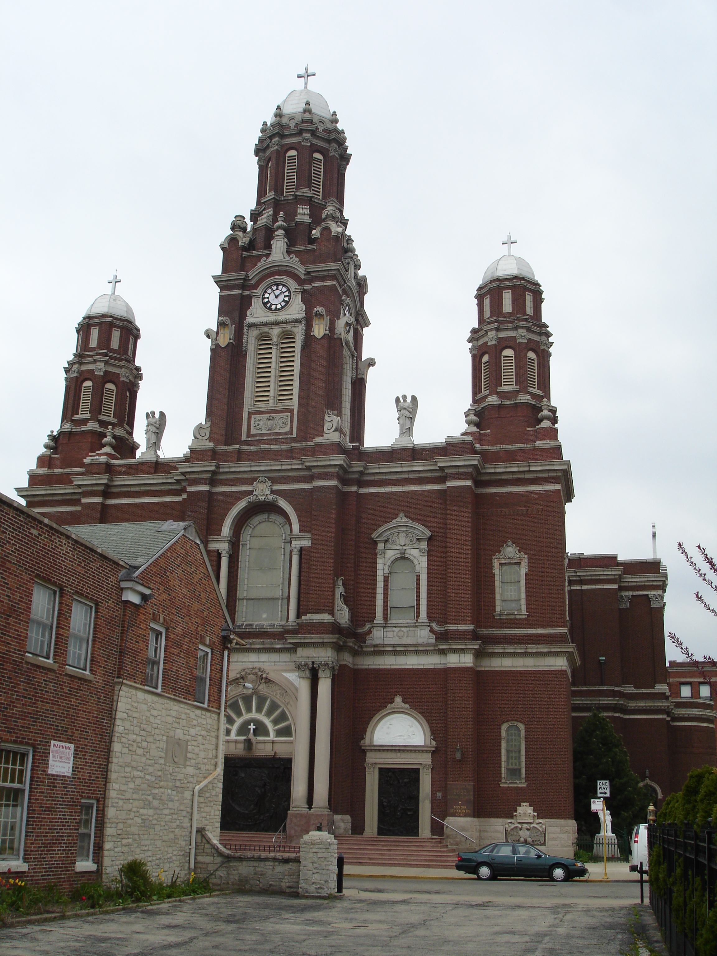 Basilica of St. Hyacinth (1894), an example of Polish Cathedral style, Jackowo - The Polish Village in Avondale neighborhood, Chicago, IL